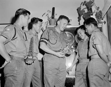 Four Malaysian Army Officers, Lieutenants Victor Kee Yong Poey and Poh Thuan Chye, of the 1st Engineering Squadron and Lieutenants Sujana bin Bujang and Kee Peng Kwan of the 2nd Engineering Squadron are doing a 12 month basic engineering course for Regimental Officers at the Australian School of Military Engineering - Officer in Charge of the school, Lieutenant Colonel Magee (centre) shows presentation pieces displayed in the school's Officers' Mess to the Malayans (from left) Lieutenants Kee Peng Kwan, Poh Thuan Chye, Victor Kee Yong Poey and Sujana bin Bujang [photographic image] / photographer, W Brindle. 1 photographic negative: b&w, acetate